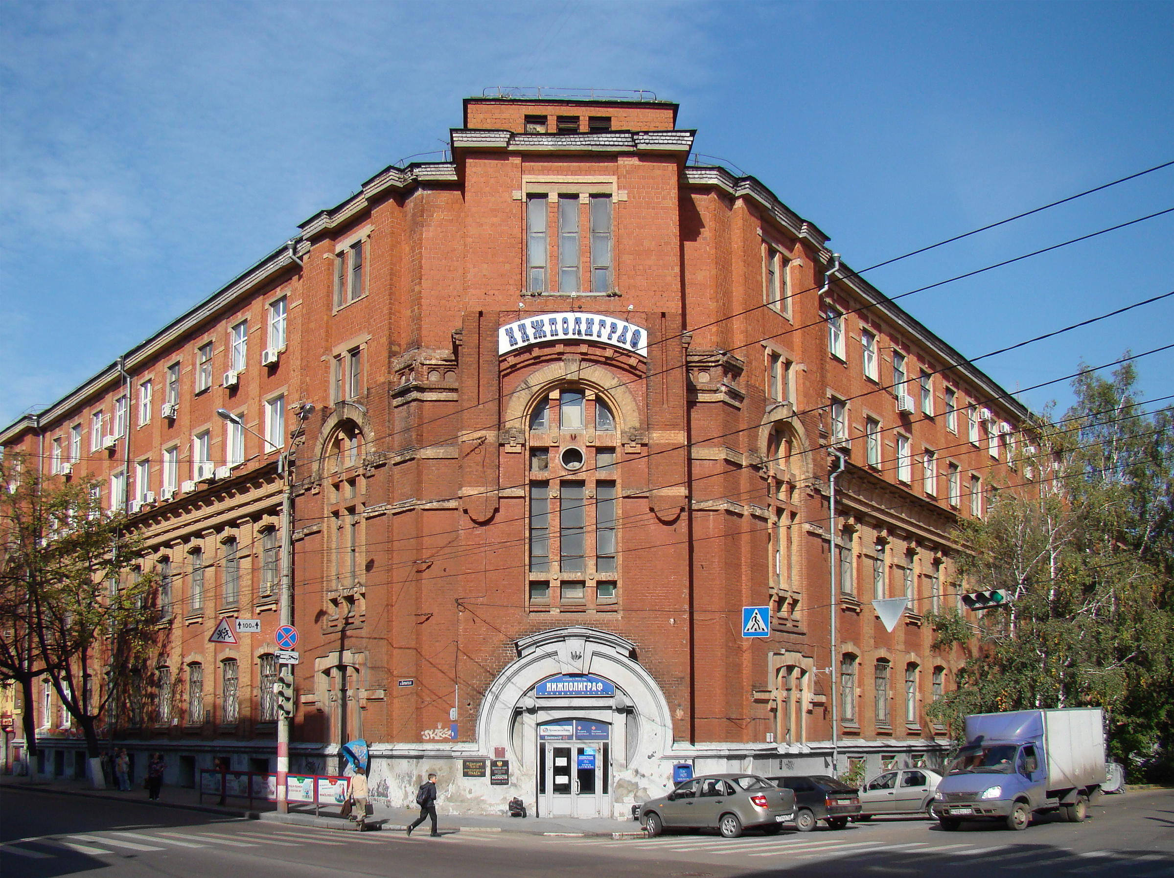 Nizhny Novgorod. Nizhpoligraf Printing Company building